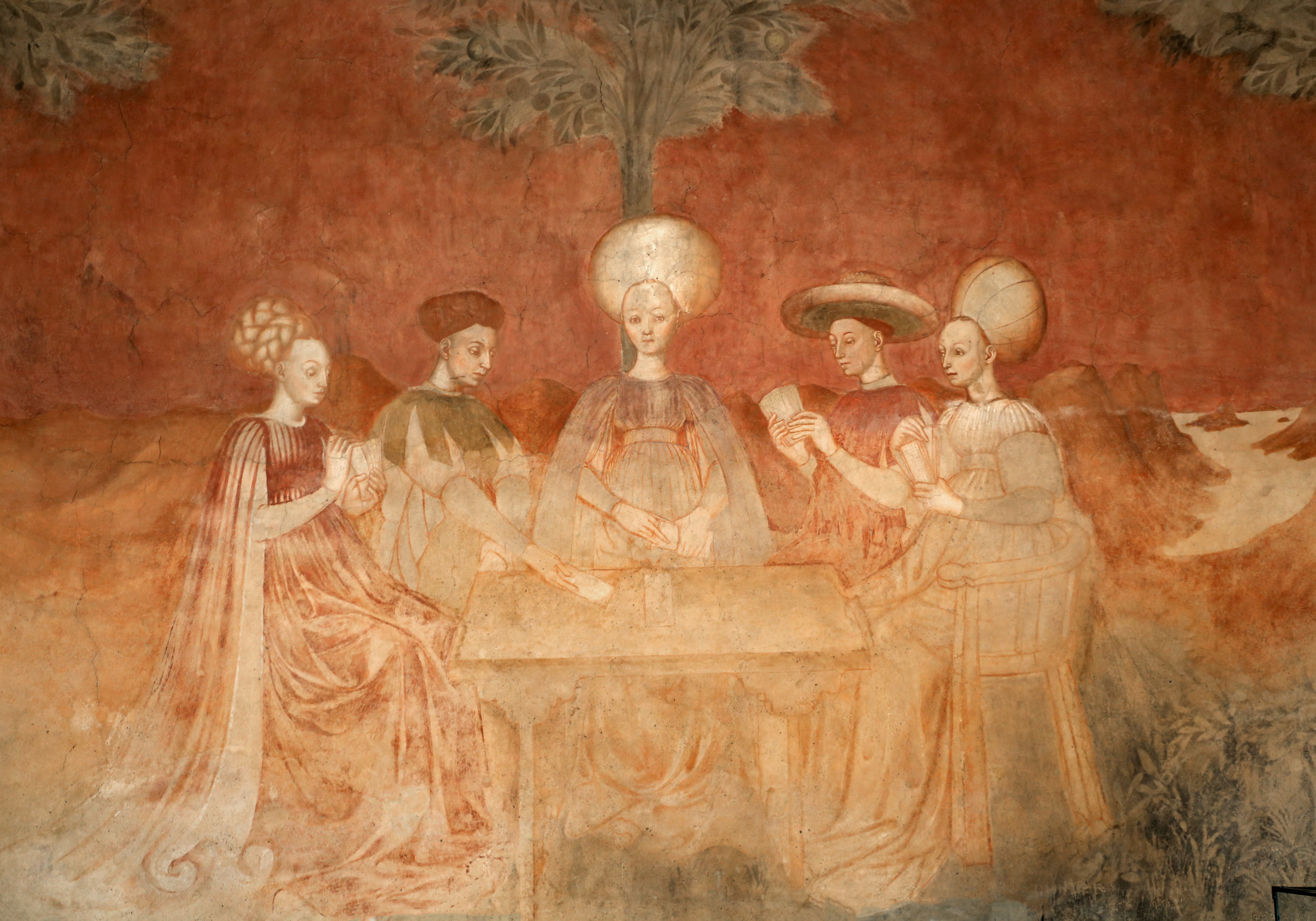 Palazzo Borromeo (Milan)